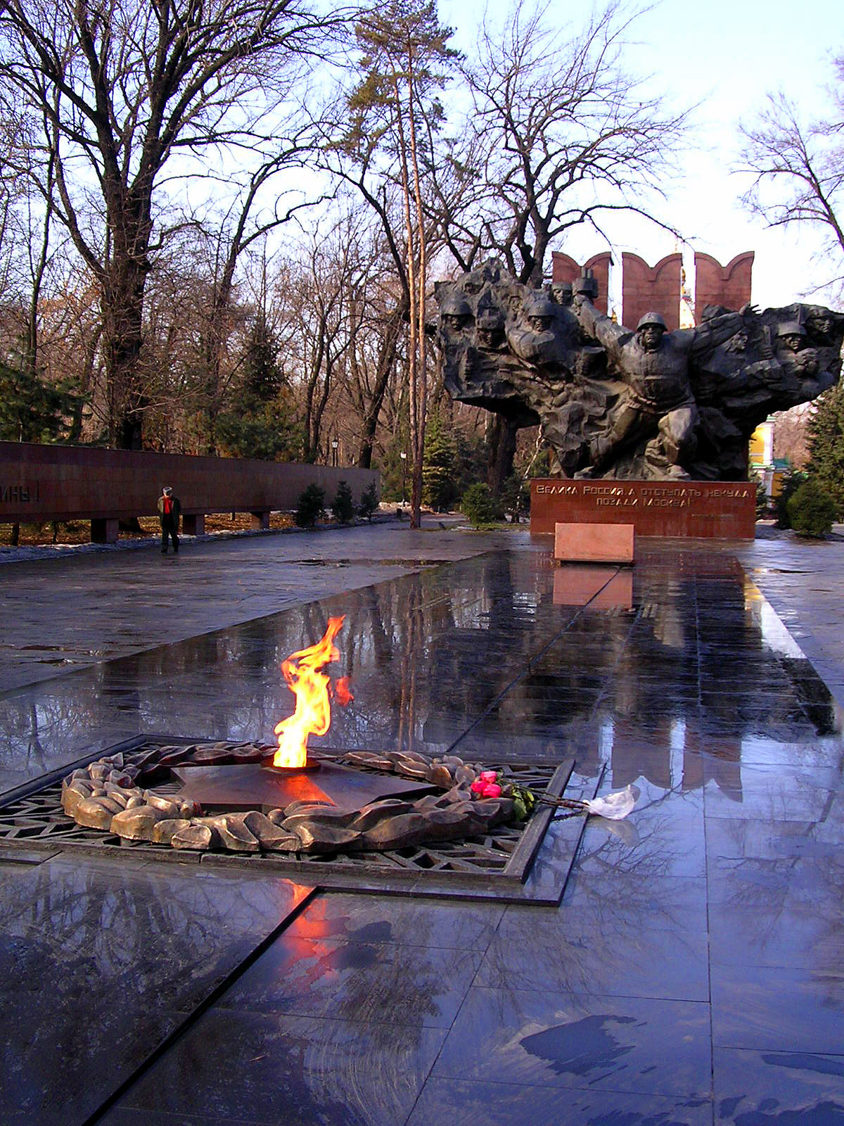 Eternal Flame World War II monument. Almaty, Kazakhstan